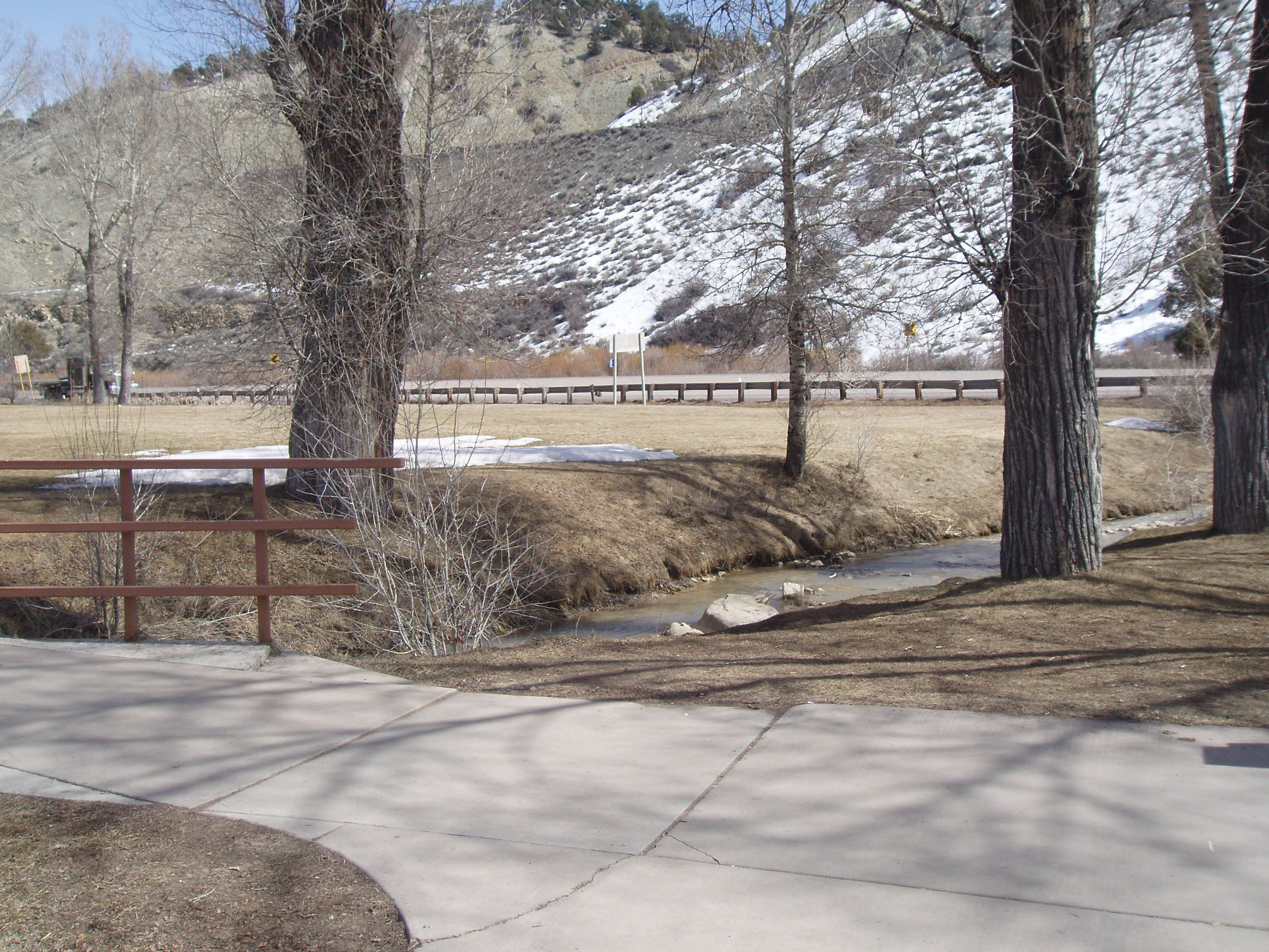 East-facing view of the ghost town of Tucker, Utah, now a rest stop.